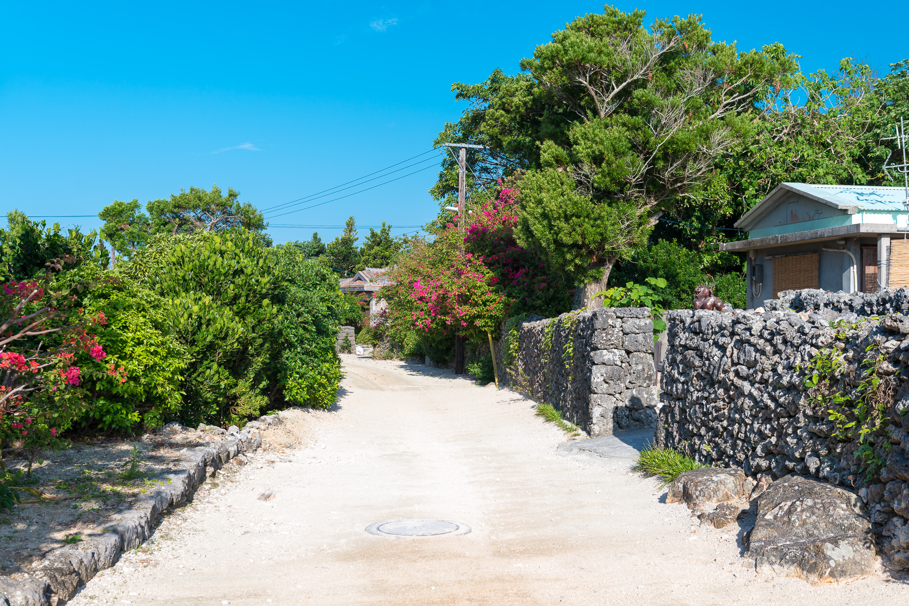 Taketomi Island